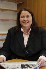 Picture of Fiona Kumari campbell in Griffith university